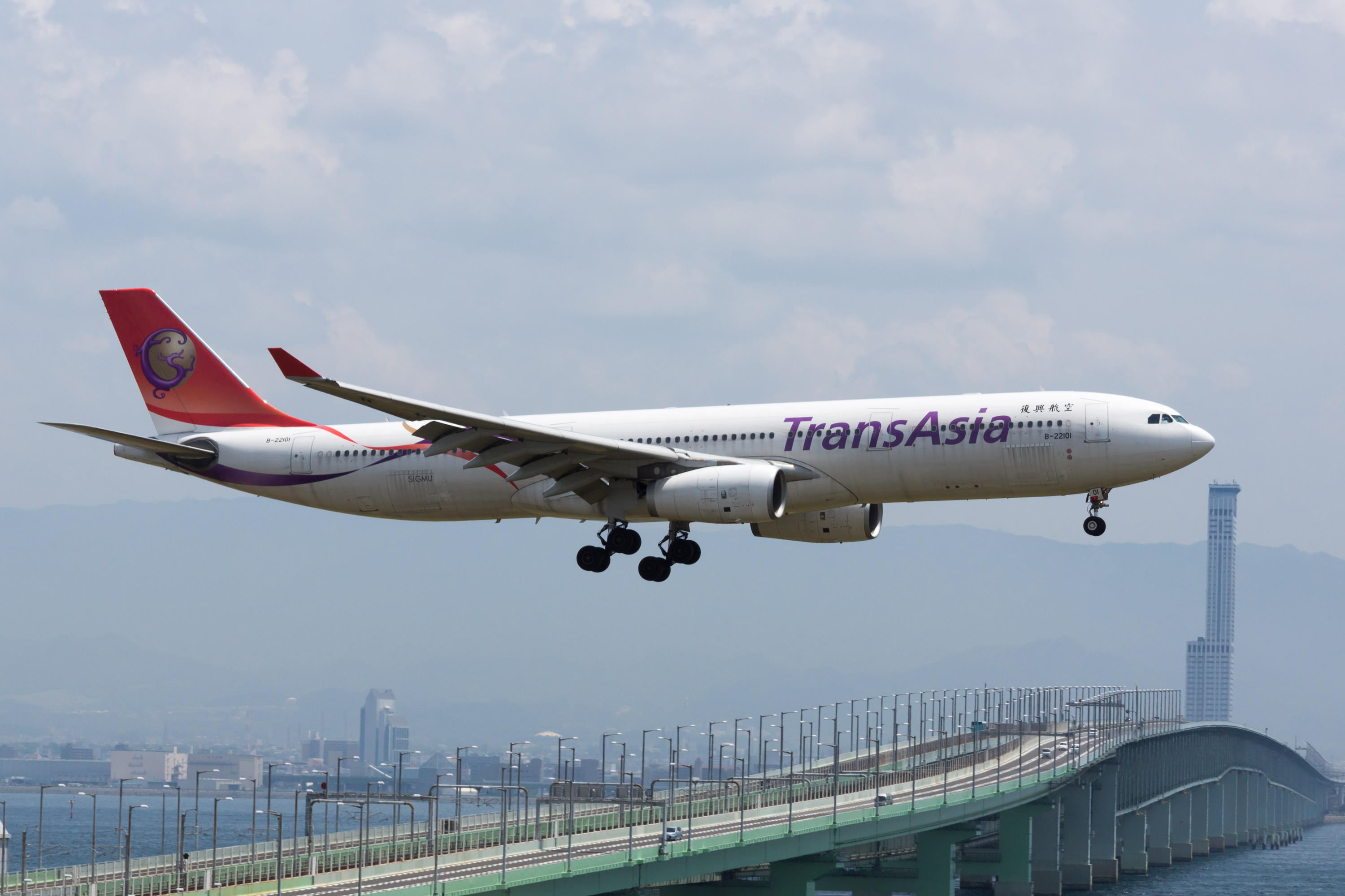 TransAsia Airways/ 復興航空/ トランスアジア航空 Airbus A330-343X B-22101 GE602, Arrived from Taipei Osaka Kansai Int'l Airport